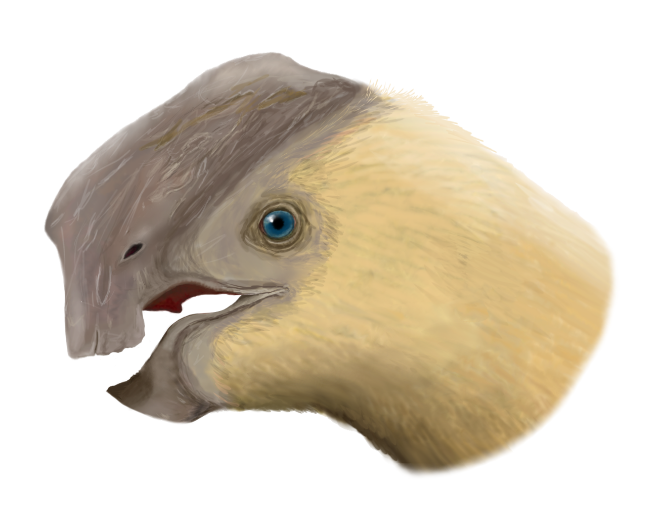 Recreation of the head and neck Huanansaurus.